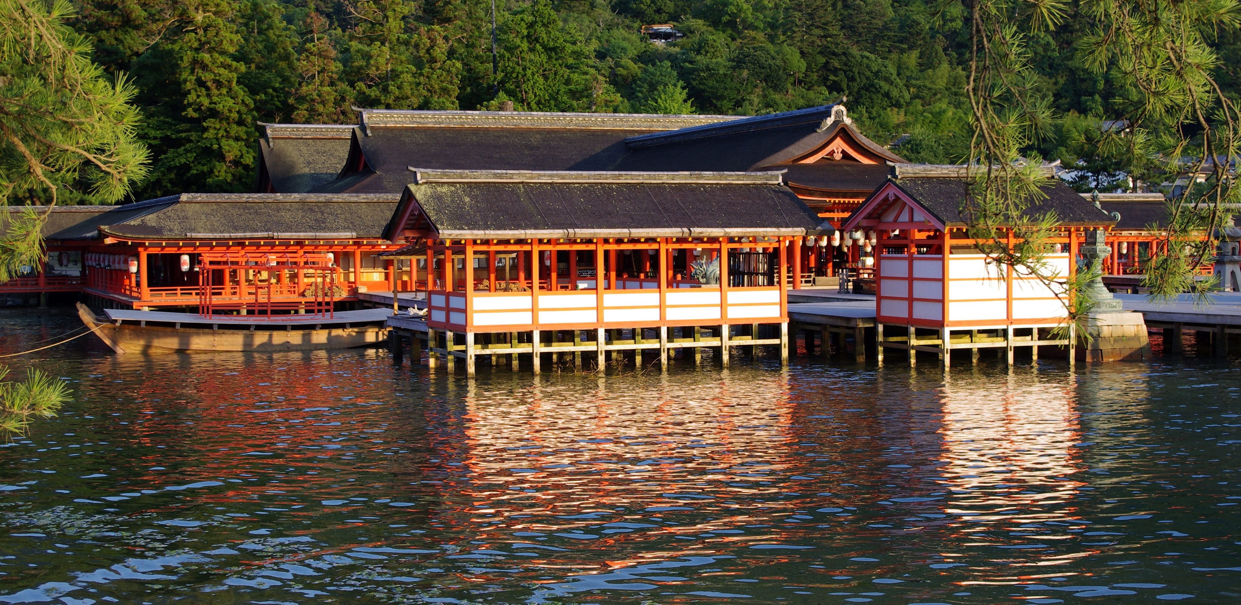 Itsukushima Shrine on Miyajima island during high tide